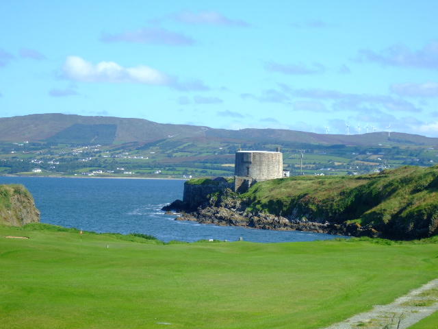 Martello Tower Near Saltpans just north of Rathmullen. The tower sits on a point know as Maccamish at the north end of the Rathmullen shoreline. The tower was owned by the Pilkington family of the Pilkington glass company.